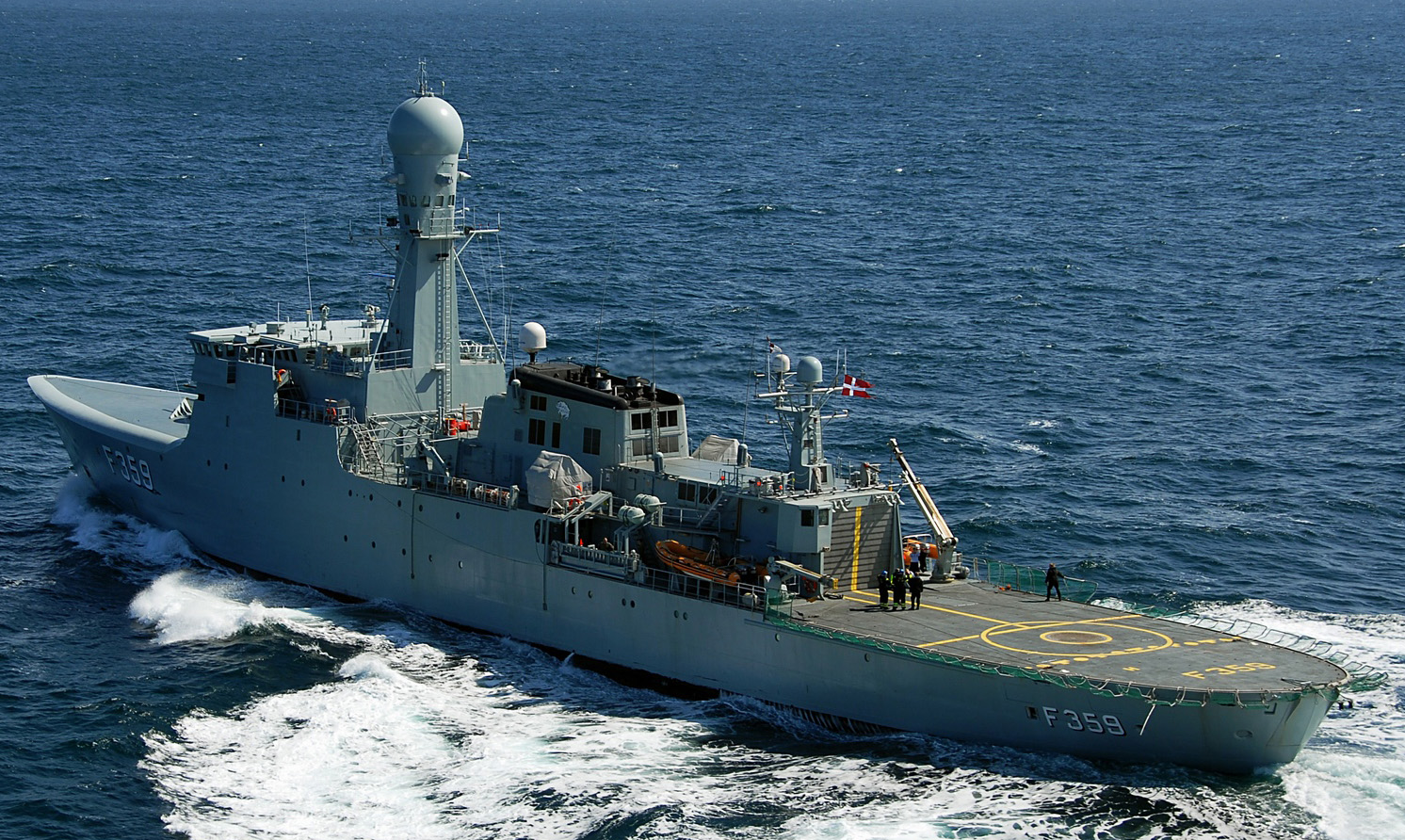 The Vaedderen, a Royal Danish Naval Ship, works with Coast Guard Cutter Tigershark, home-ported in Newport, Rhode Island., Coast Guard Cutter Spencer, home-ported in Boston, and Coast Guard Air Station Cape Cod, Massaschusetts, to locate Oscar, a rescue dummy used to train Coast Guard personnel, as part of a search and rescue exercise March 25, 2008.